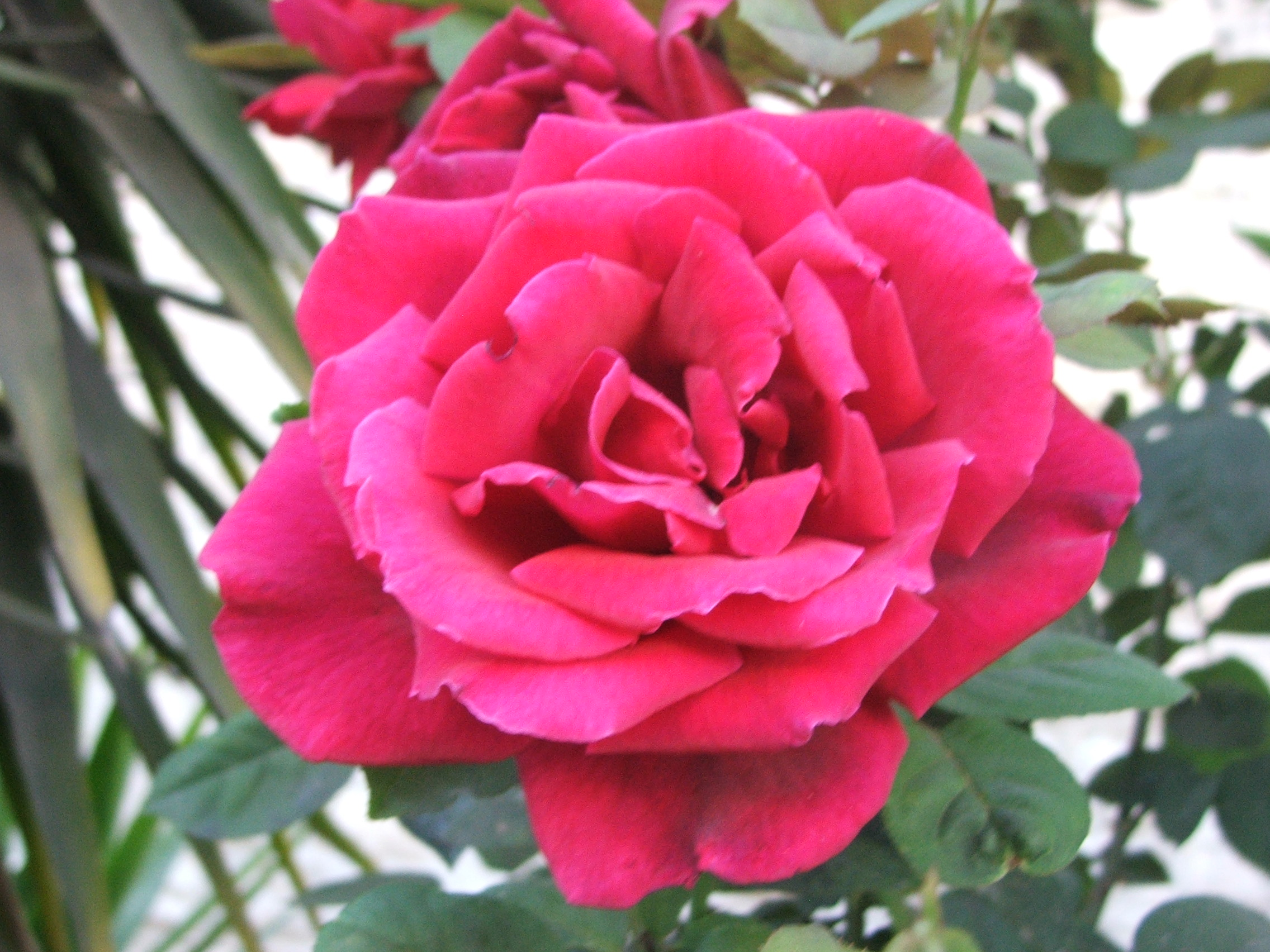 A picture of a pink rose.